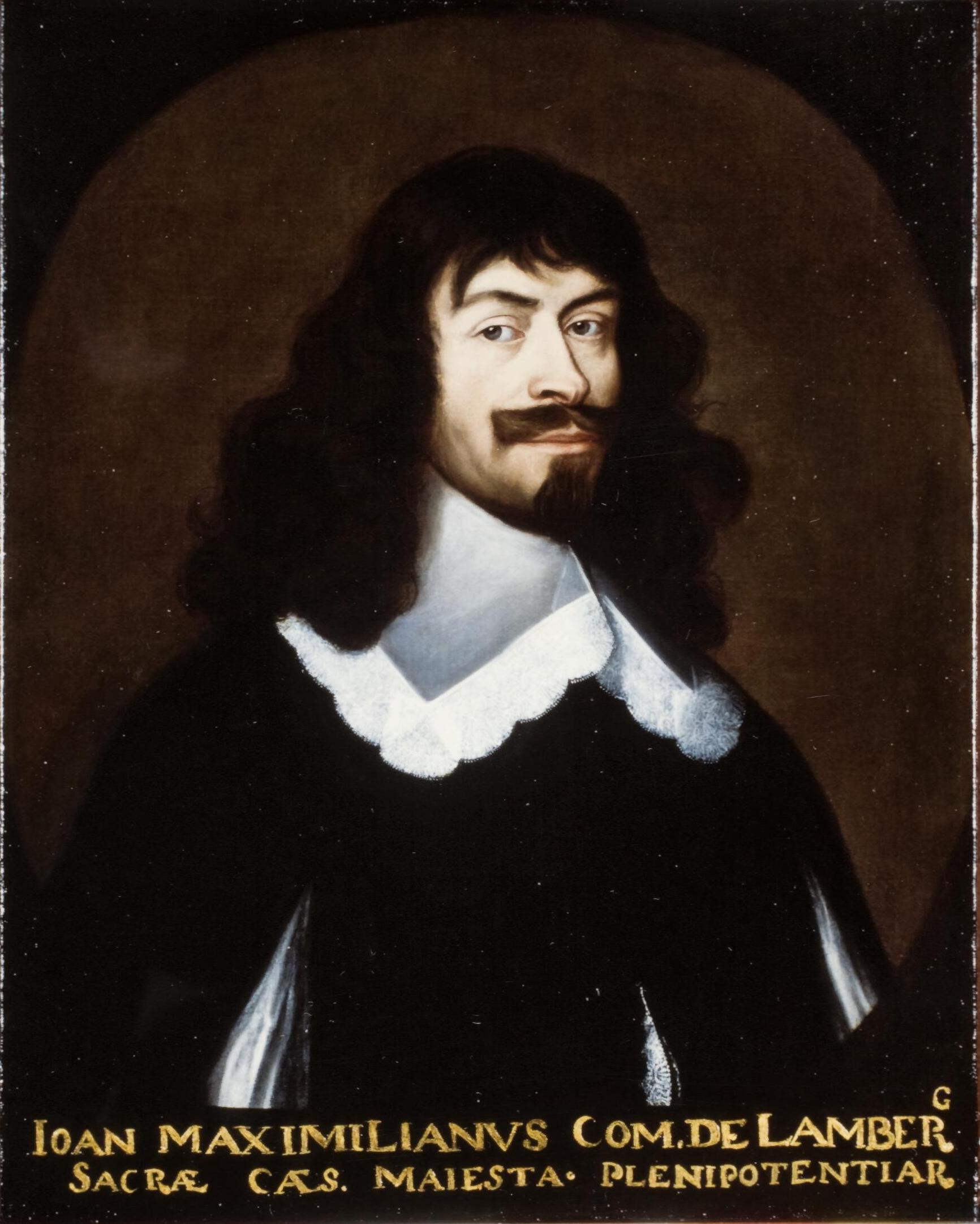 Johan Maximiliaan van Lamberg (1608-1682), 1648-1649 Münster, Historisches Rathaus Münster (Friedenssaal)